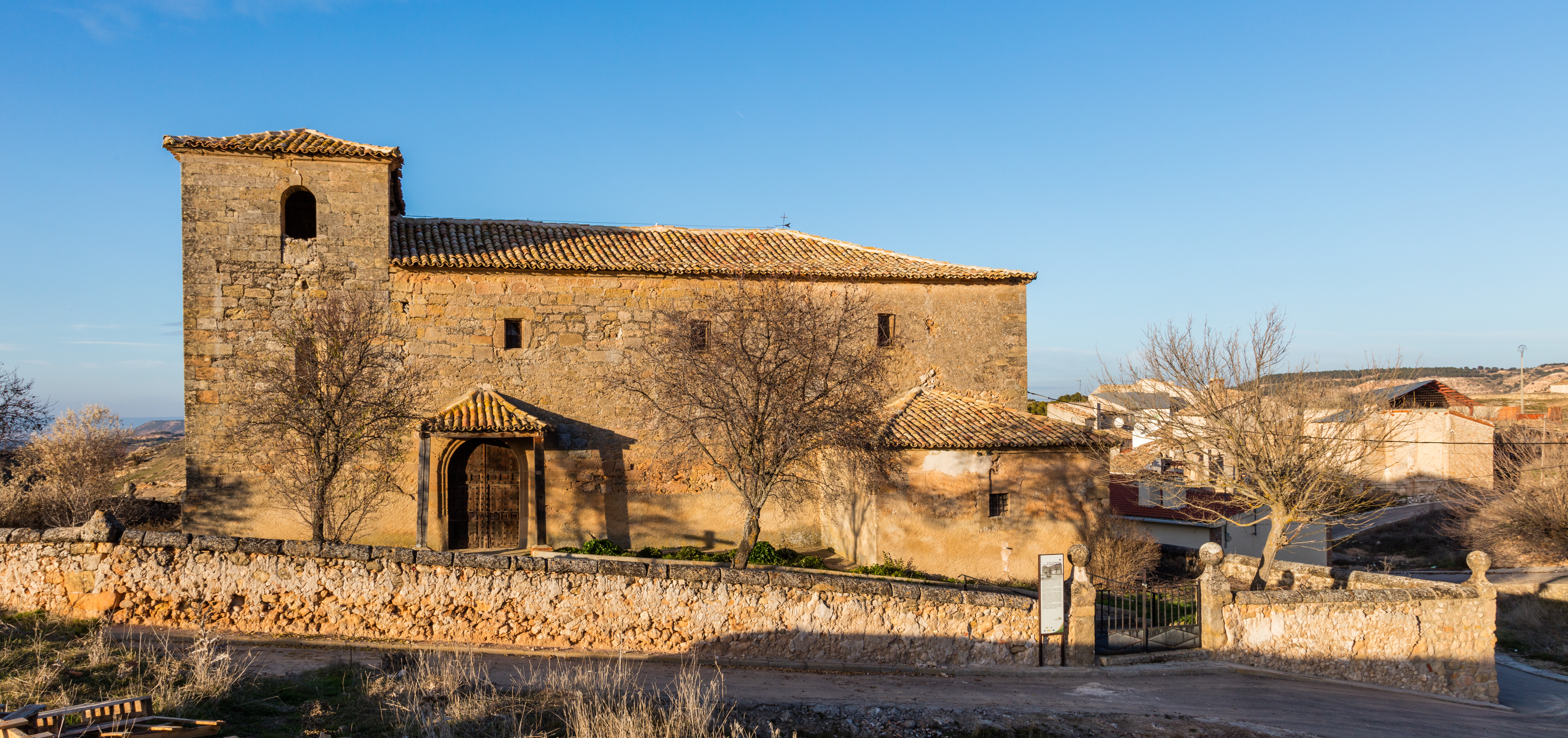 Church of St Andrés, Olmedilla de Eliz, Cuenca, Spain